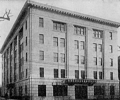 Keijo Electric Company Building